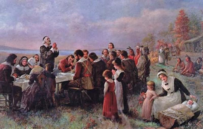 Image title: Thanksgiving brownscombe Image from Public domain images website